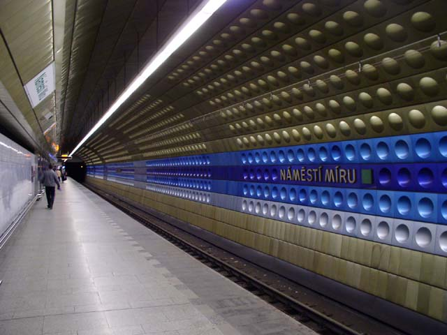 Westbound platform of Prague Metro station Náměstí Míru. Photo credit: Matěj Čadil